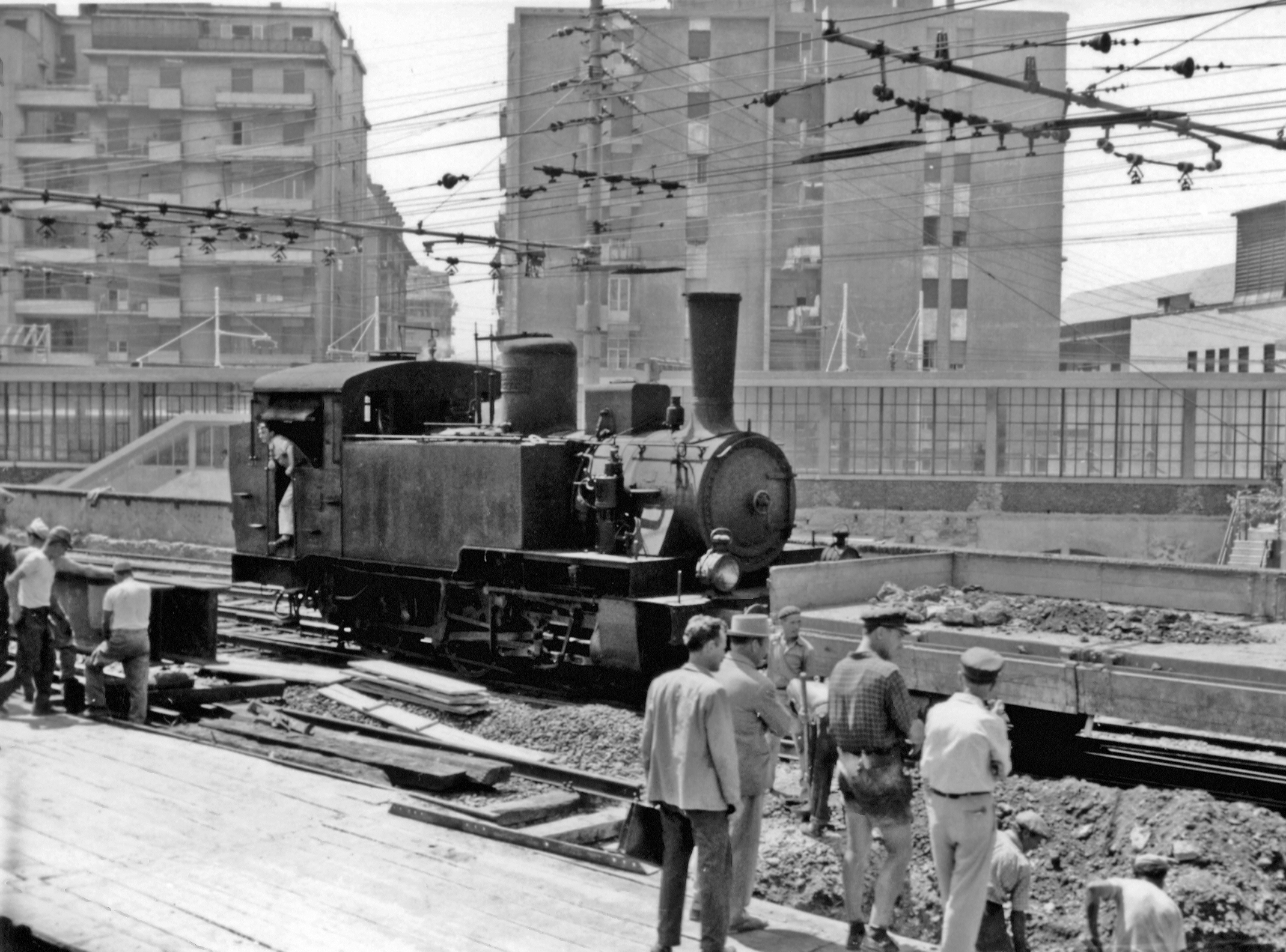 An FS 0-6-0T (Class 835) at Genoa Brignole station, in 1960 while reconstruction work is underway.